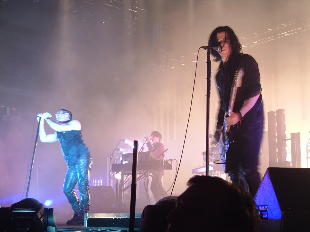 Nine Inch Nails live in Wilkes-Barre, PA, 11/06/05. Band members from left to right: Trent Reznor (vocals), Alessandro Cortini (keyboard), Aaron North (guitar).